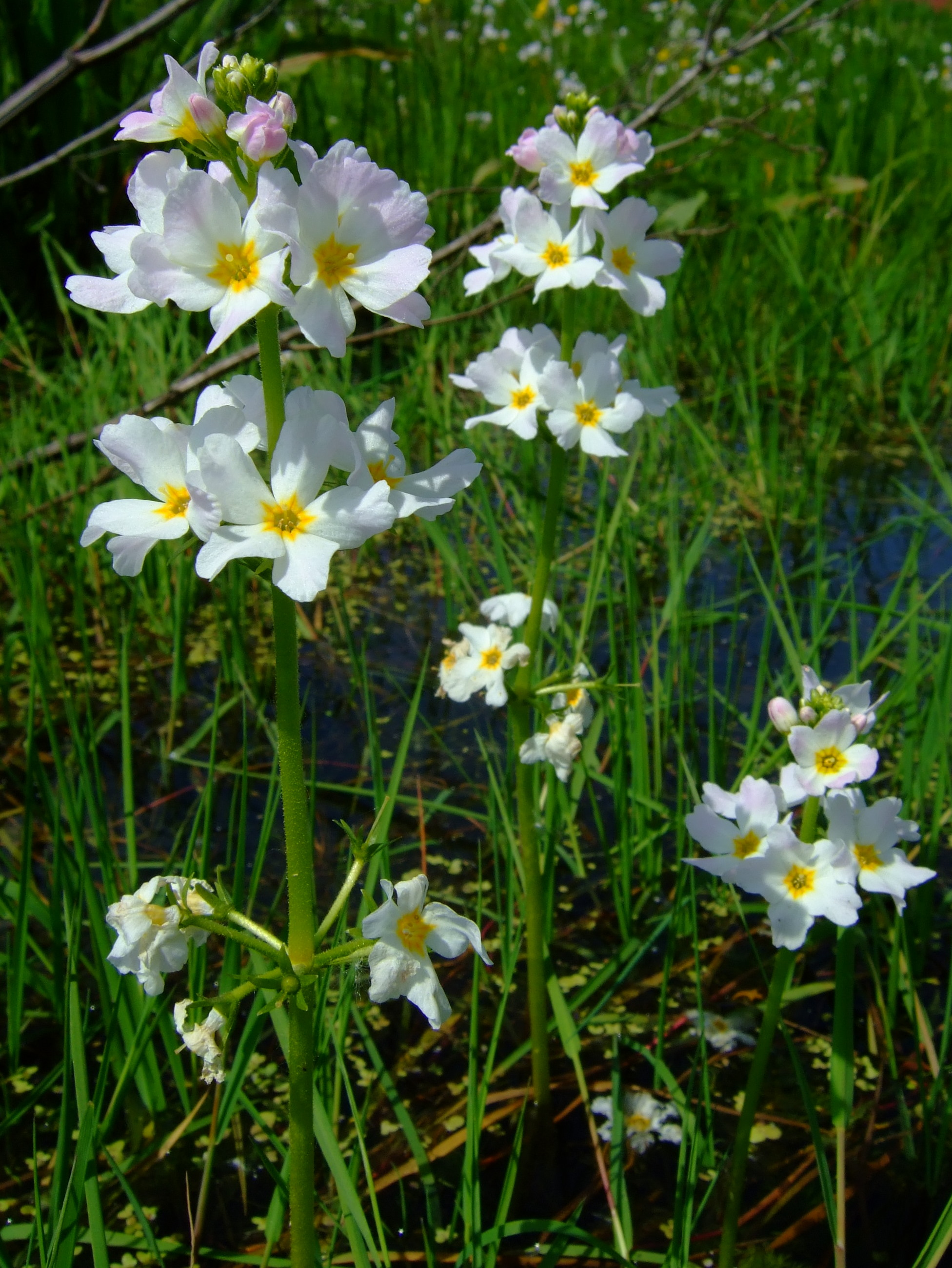 Water Violet in Kirchwerder, Hamburg.